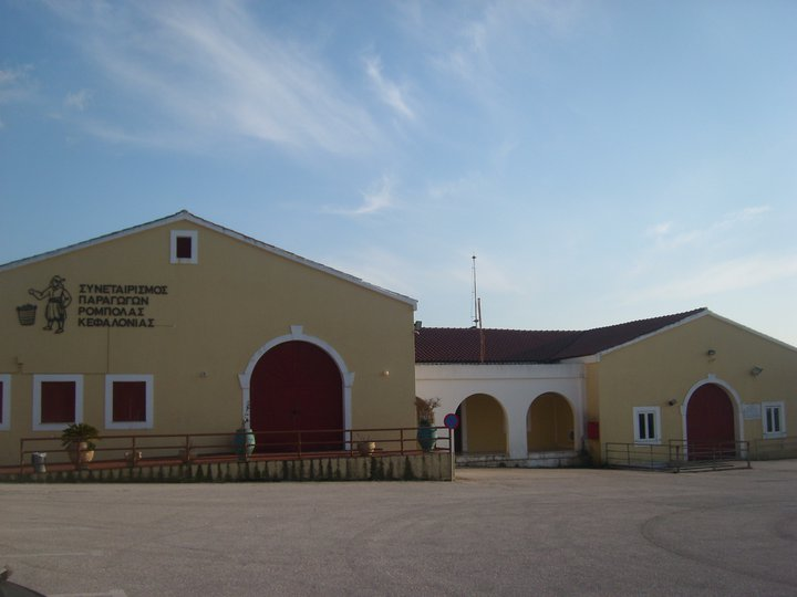 The entrance to the Robola Wine Cooperative in Omala, Kefalonia